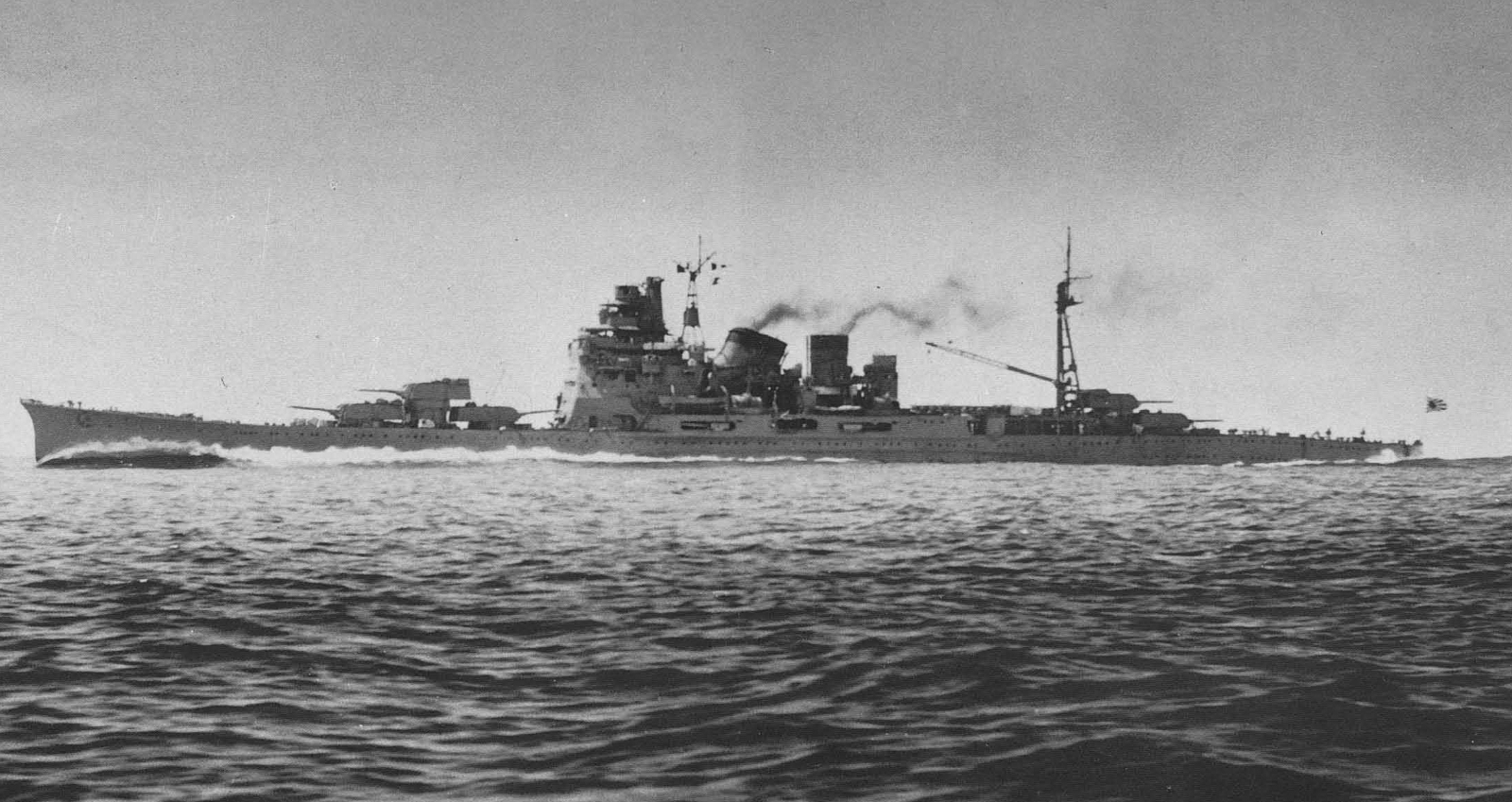 Japanese heavy cruiser Atago on trials after modernization.